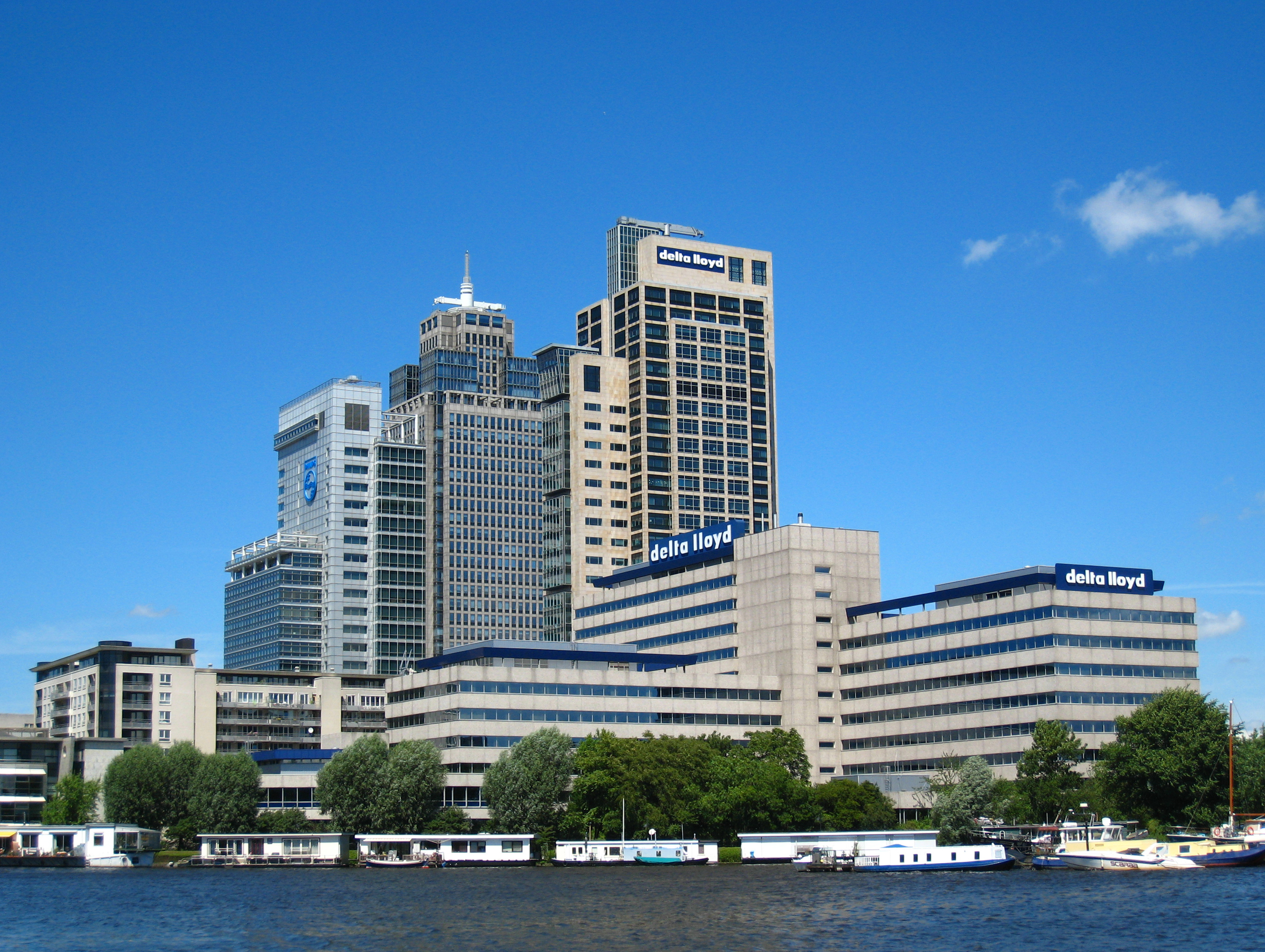 The 'omval' in Amsterdam, seen over the Amstel. Houseboats at the front. The three tall buildings from left to right: Breitner toren/Breitner tower, Rembrandt toren/Rembrand tower, Mondriaan toren/Mondriaan tower.